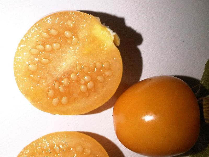 Cape gooseberry, Inca berry, Aztec berry, golden berry, giant ground cherry or Peruvian groundcherry (Physalis peruviana) fruits in London, England.